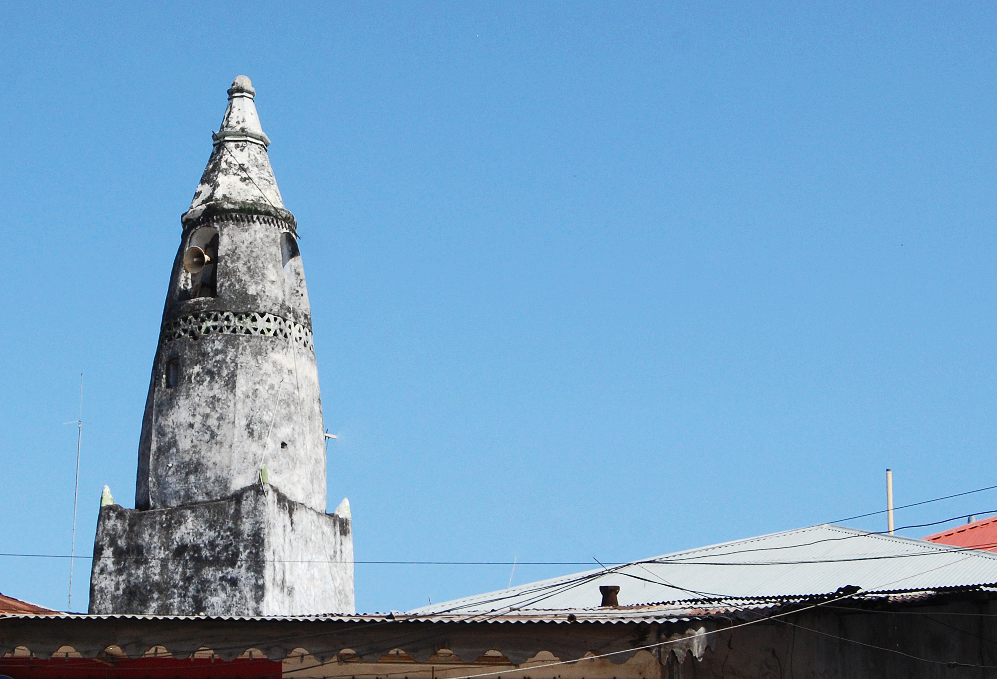 On a walk around Stone Town, Zanzibar. A view of the Malindi Mosque Minaret, the oldest of Stone Town's many mosques, originally built in 1831. The minaret sits on a square ... that is down an alley and across the road from the Malindi Mosque itself